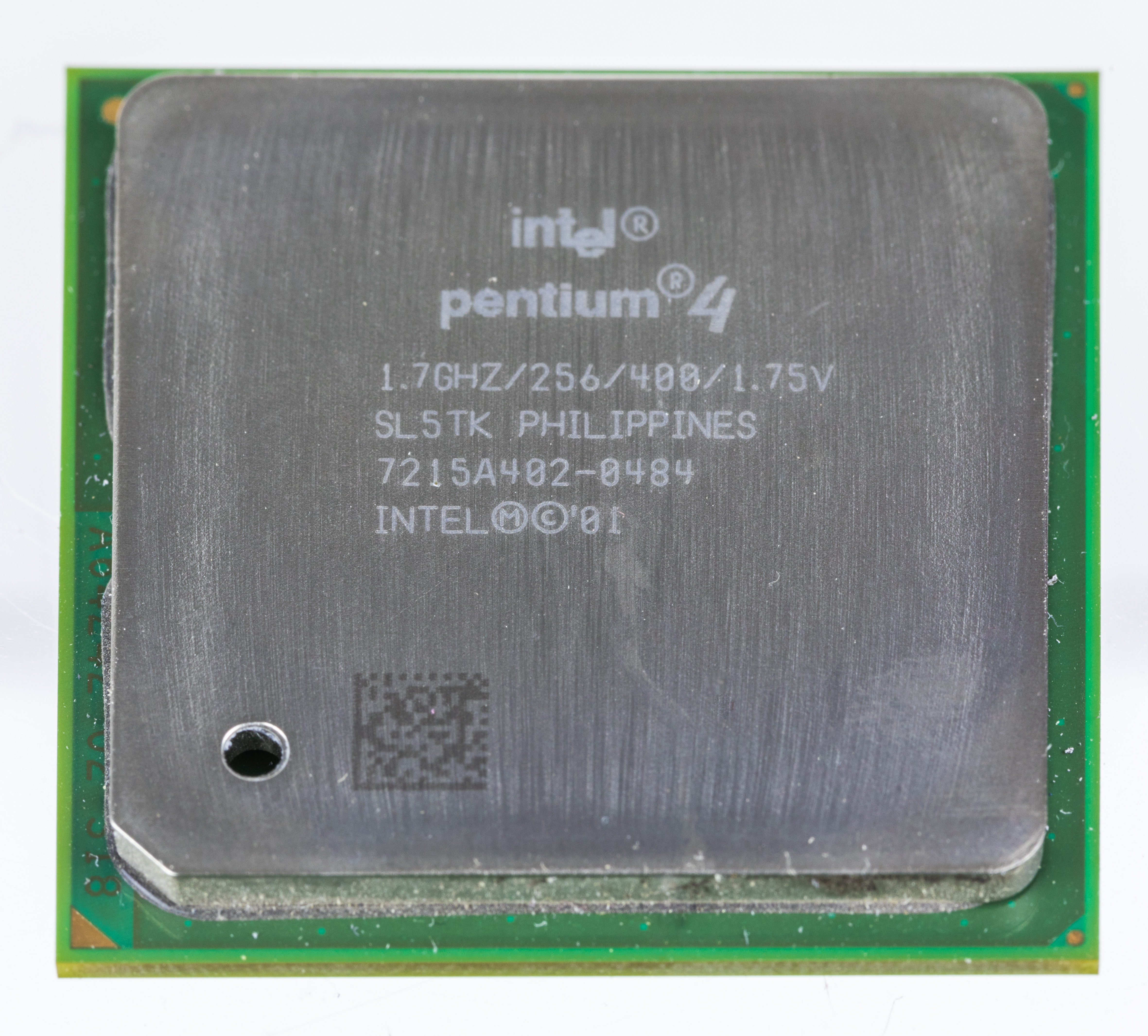 Pentium 4 - SL5TK Willamette with Socket 478 (2001) from a Compaq Deskpro Evo